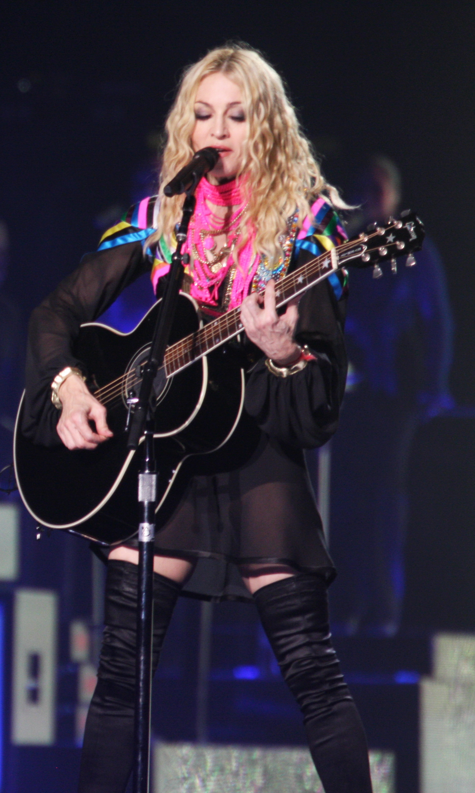 Miles Away Sticky & Sweet Tour 2008